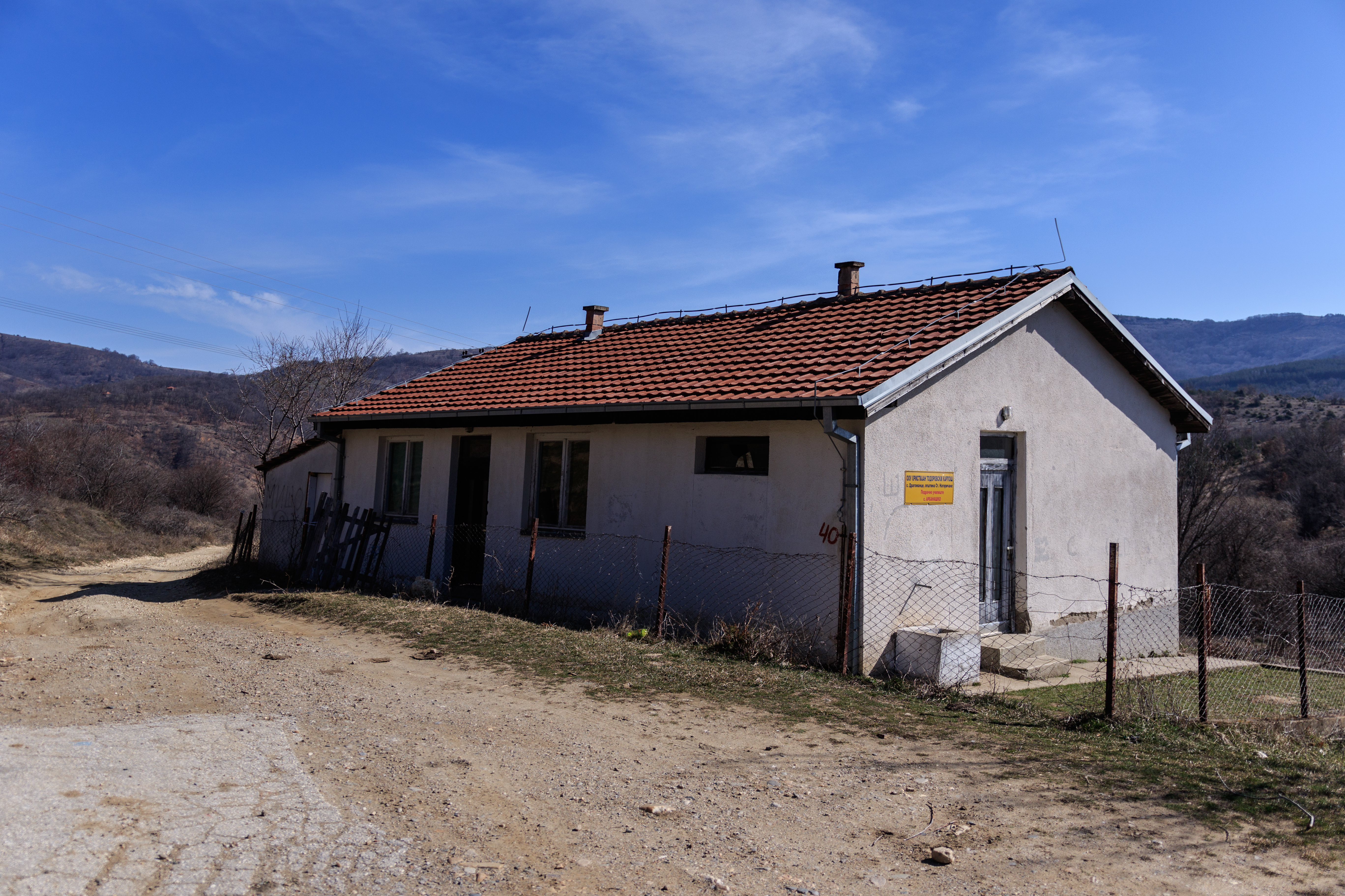 Elementary School Hristijan Todorovski Karpoš, Munincipality Staro Nagoričane, auxilary school in Arbanaško village.